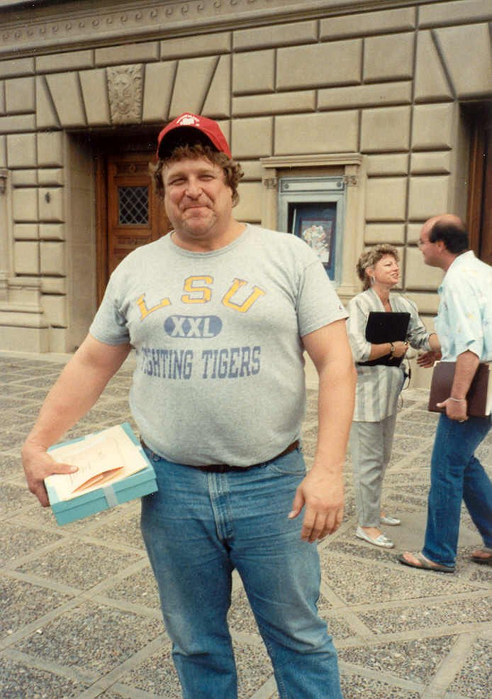 John Goodman at the 41st Emmy Awards